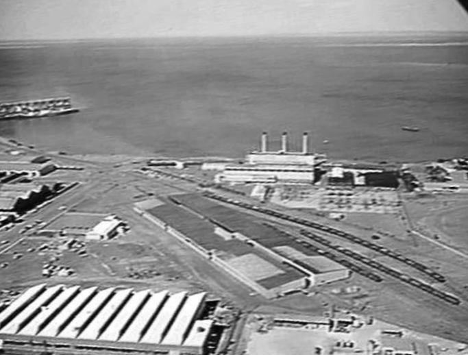 Geelong B Power Station - Victoria, Australia